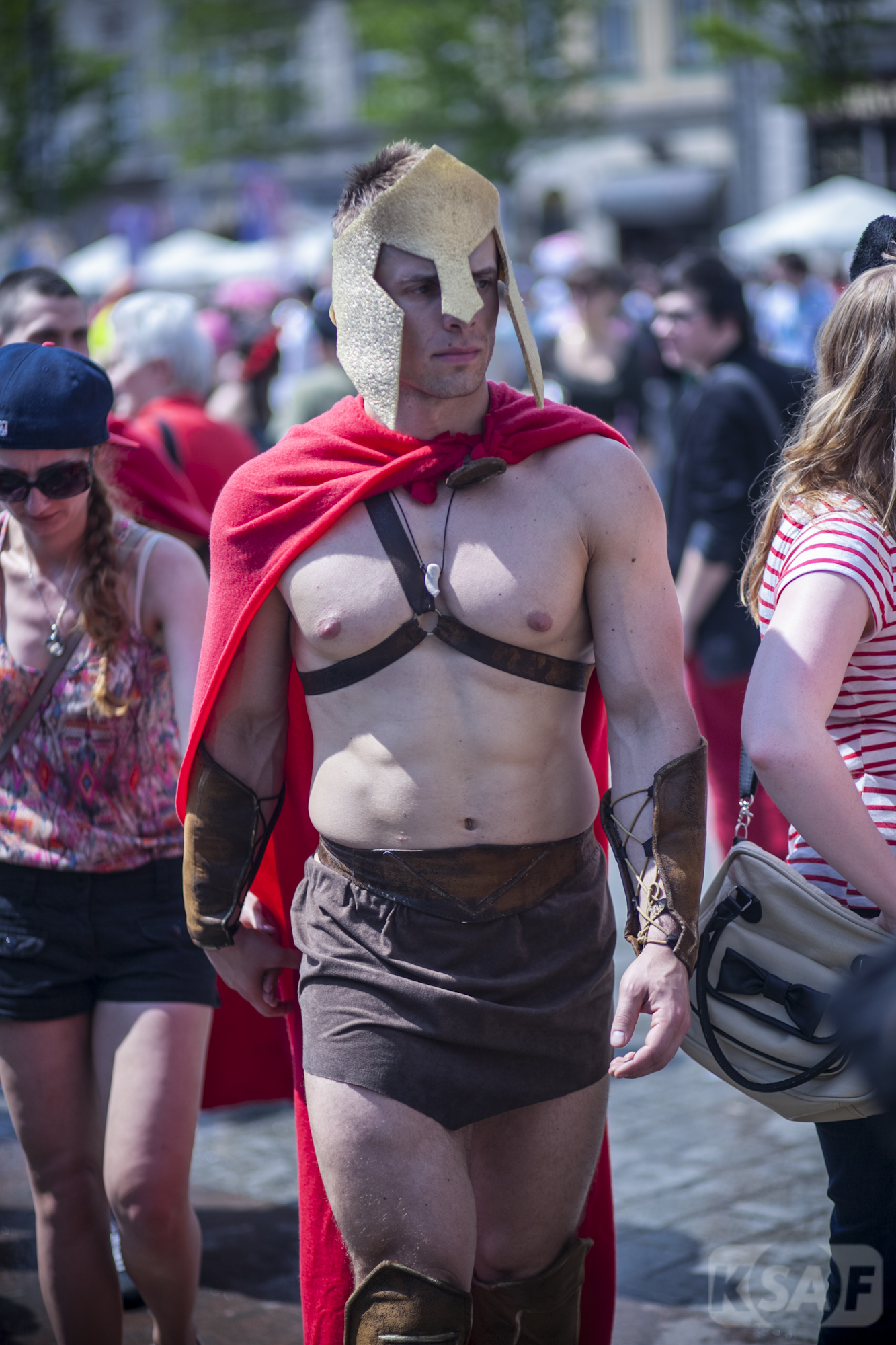 A participant in 2013 "Juwenalia krakowskie"